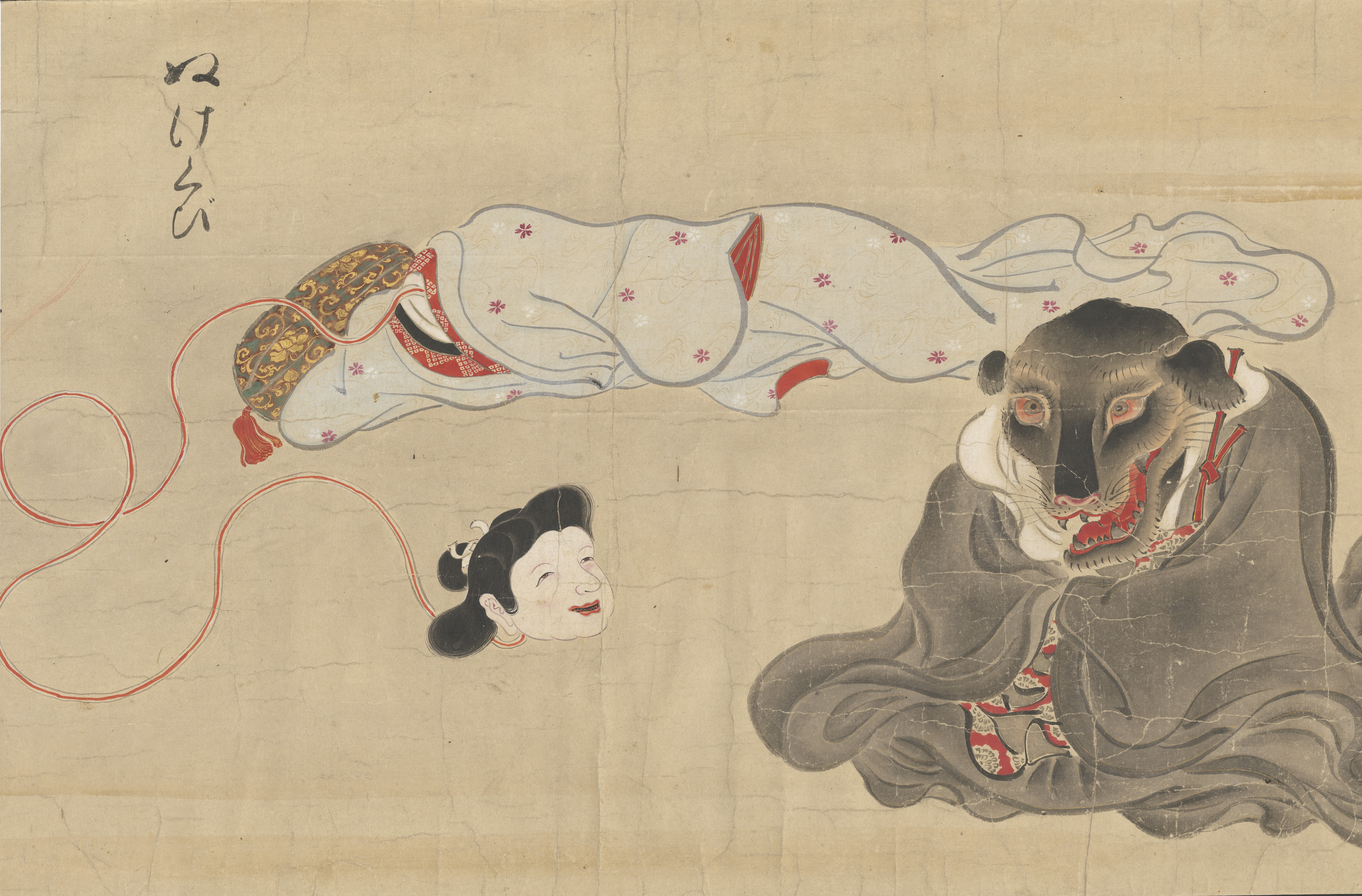 Nukekubi ぬけくひ from Bakemono no e (化物之繪, c. 1700), Harry F. Bruning Collection of Japanese Books and Manuscripts, L. Tom Perry Special Collections, Harold B. Lee Library, Brigham Young University.